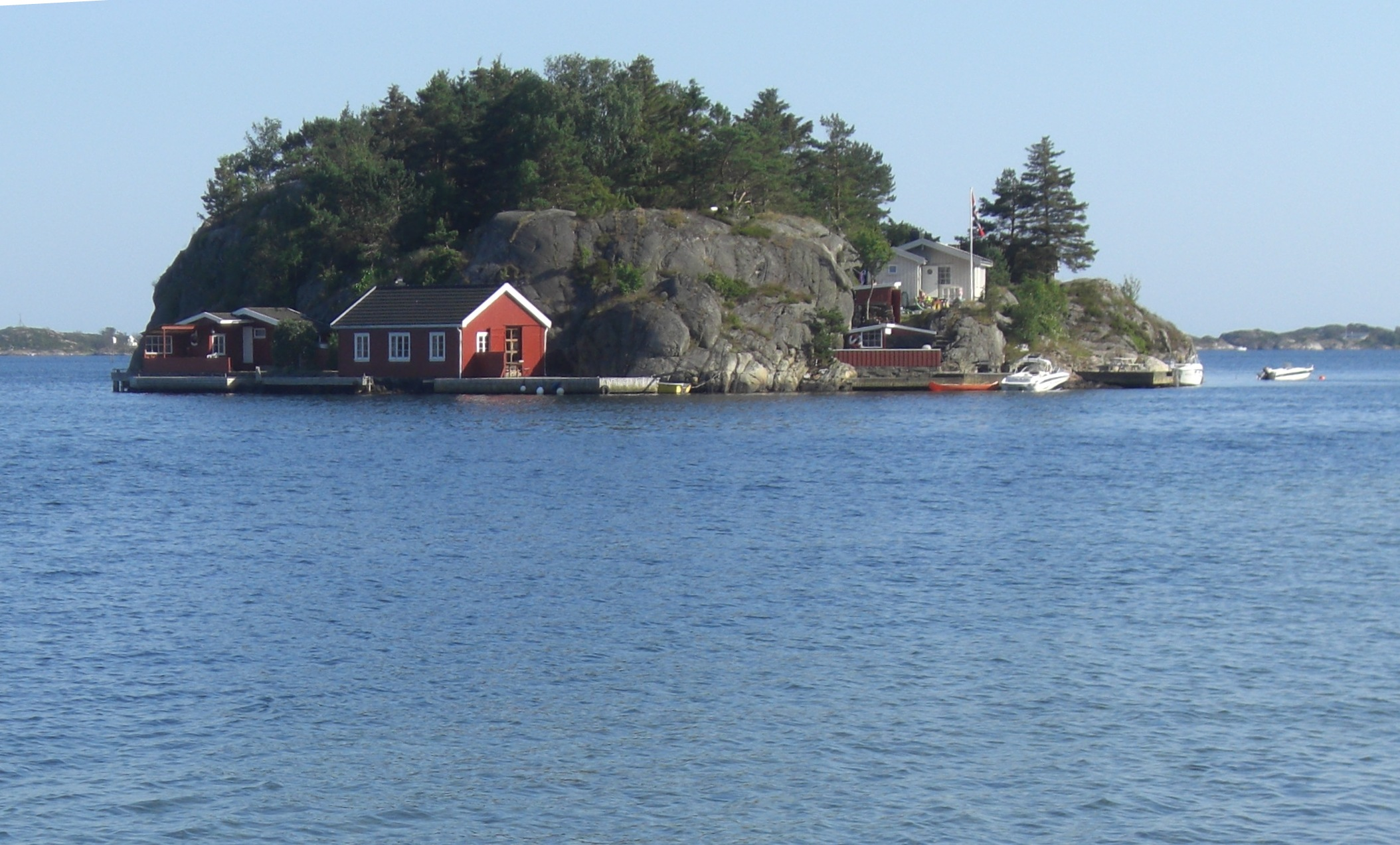 Groosholmen